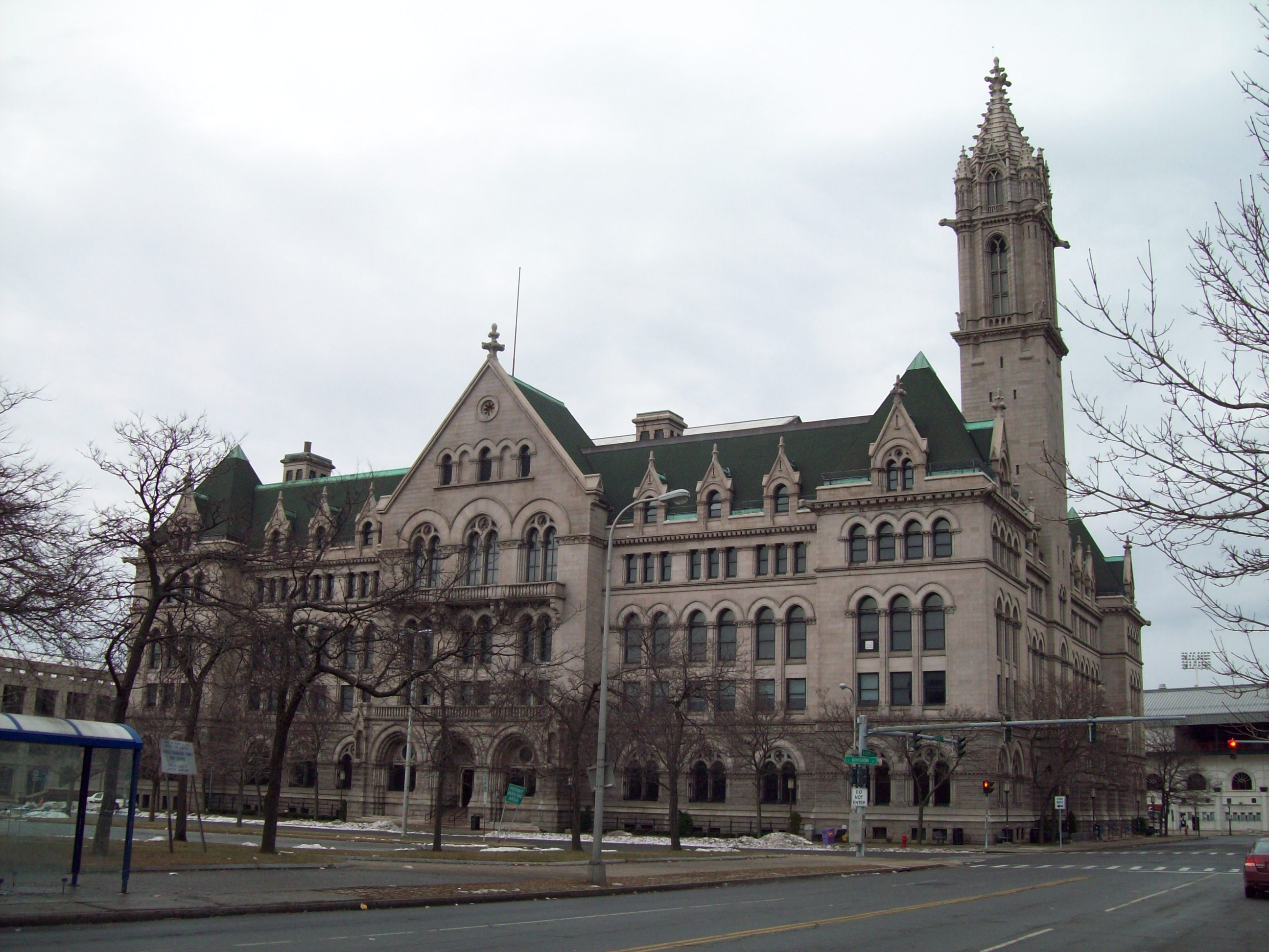 Old Post Office, Buffalo NY, Full View, December 2009